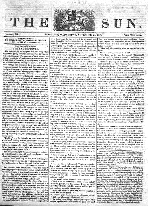 New York Sun. See File:TestataSun.jpg for masthead.